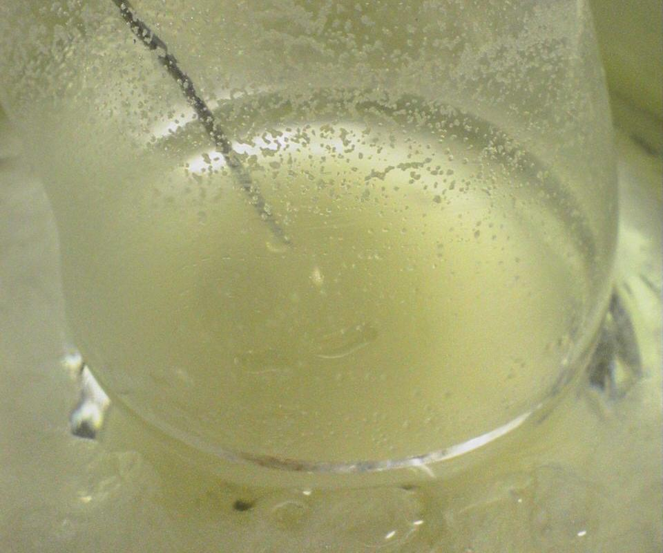 An example of chemical experiment using Grignard reagent. Part 7. A solution of carbonyl compound was added to the Grignard reagent.